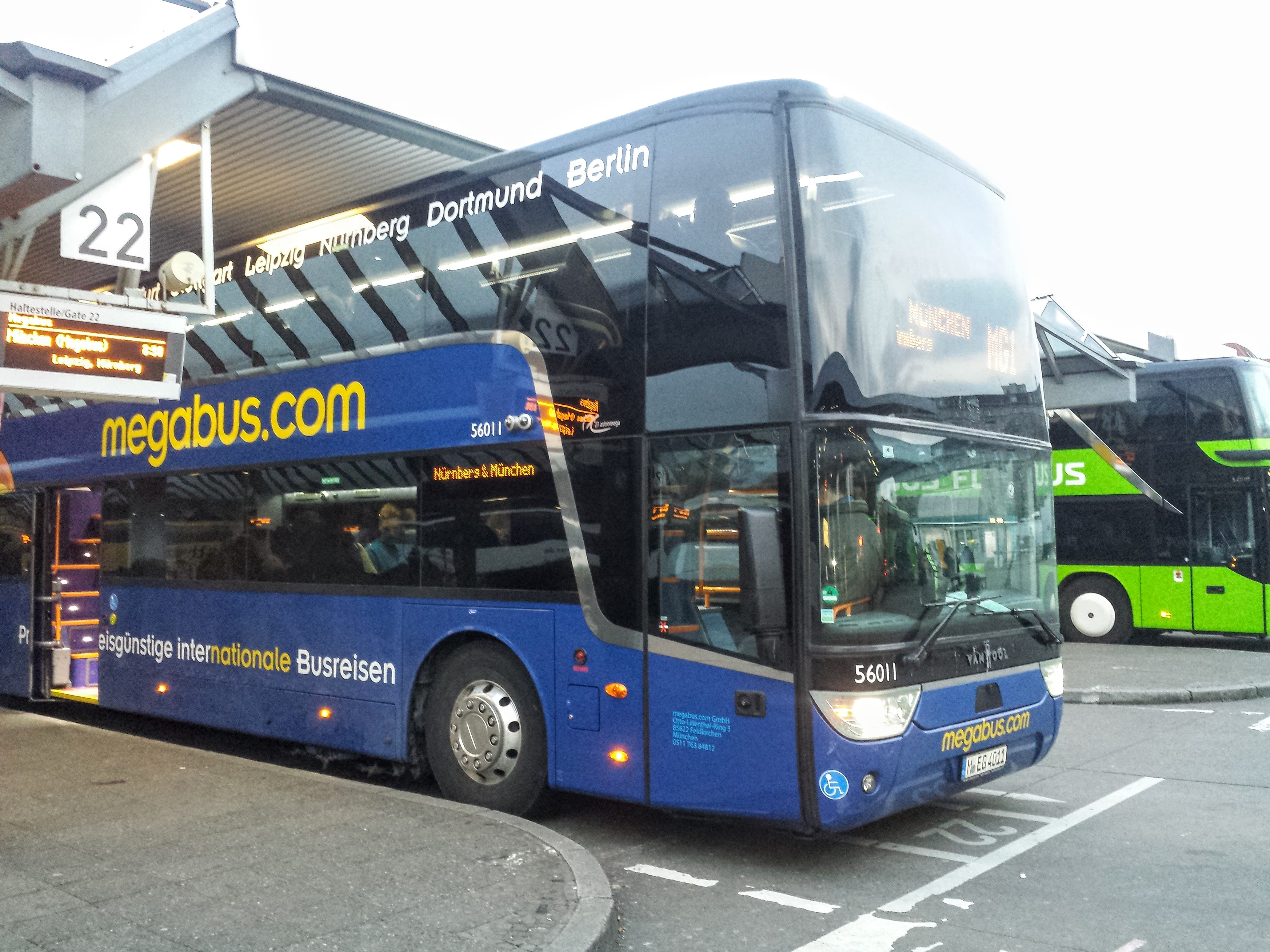 A Megabus Van Hool Astromega at Berlin Bus Terminal